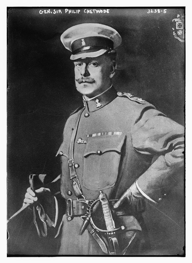 Bain News Service,, publisher. Gen. Sir Philip Chetwode [between ca. 1910 and ca. 1915] 1 negative : glass ; 5 x 7 in. or smaller. Notes: Title from unverified data provided by the Bain News Service on the negatives or caption cards. Forms part of: George Grantham Bain Collection (Library of Congress). Format: Glass negatives. Repository: Library of Congress, Prints and Photographs Division, Washington, D.C. 20540 USA, General information about the Bain Collection is available at Higher resolution image is available (Persistent URL): Call Number: LC-B2- 3238-5